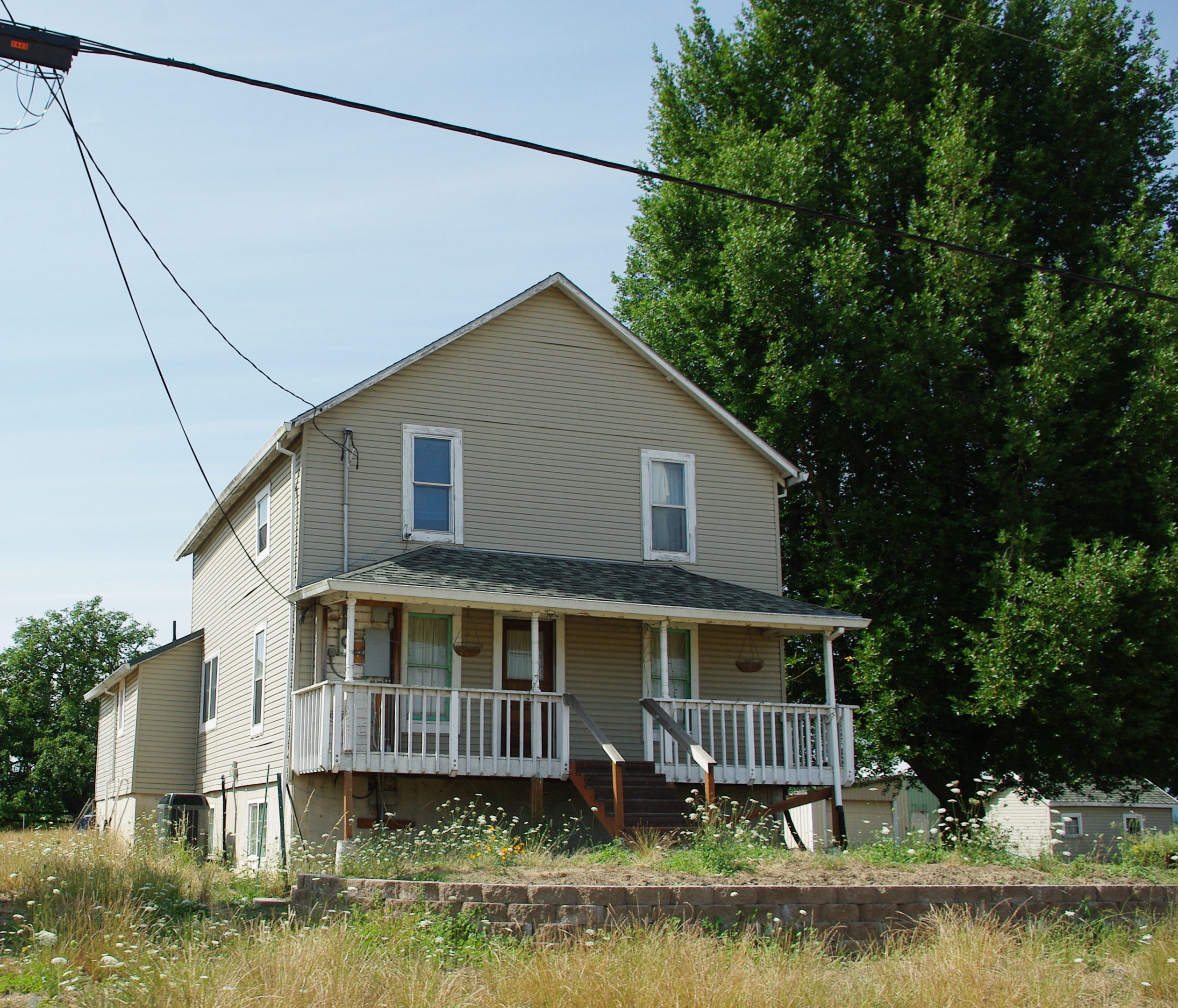 Home in unincorporated area of Washington County, Oregon, at Thatcher.